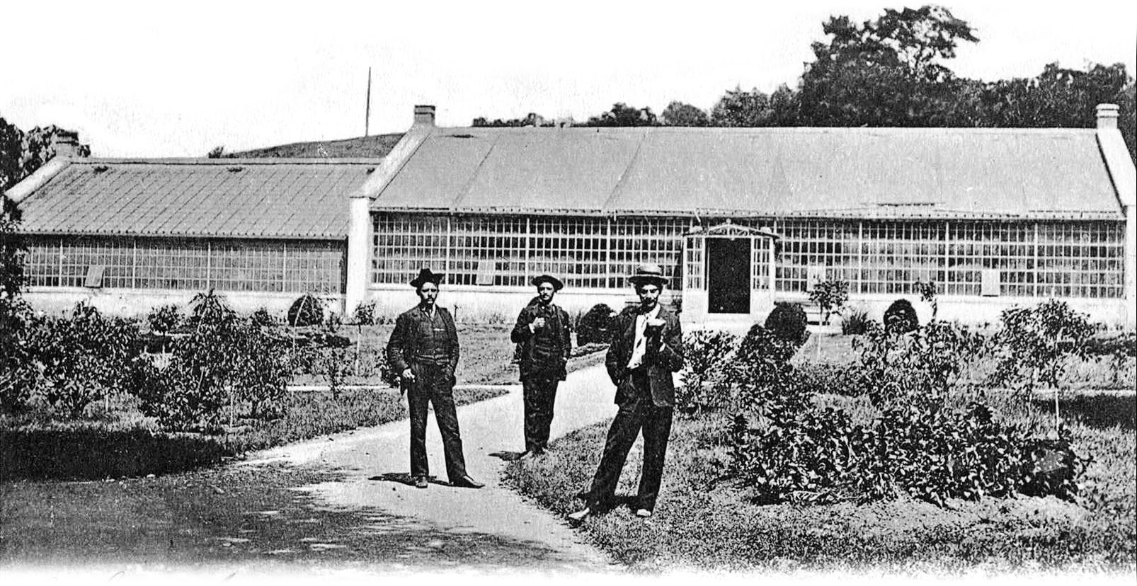 Greenhouse in Topcider 1905 (Belgrade)